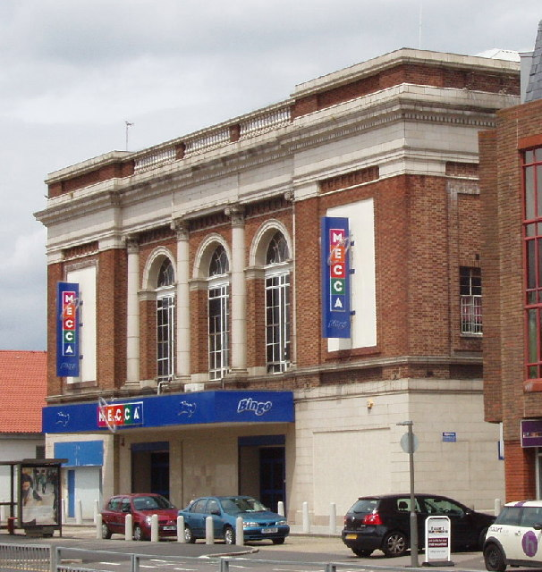 Bingo Hall, Uxbridge Road, Hayes. Many cinemas were converted to Bingo Halls.